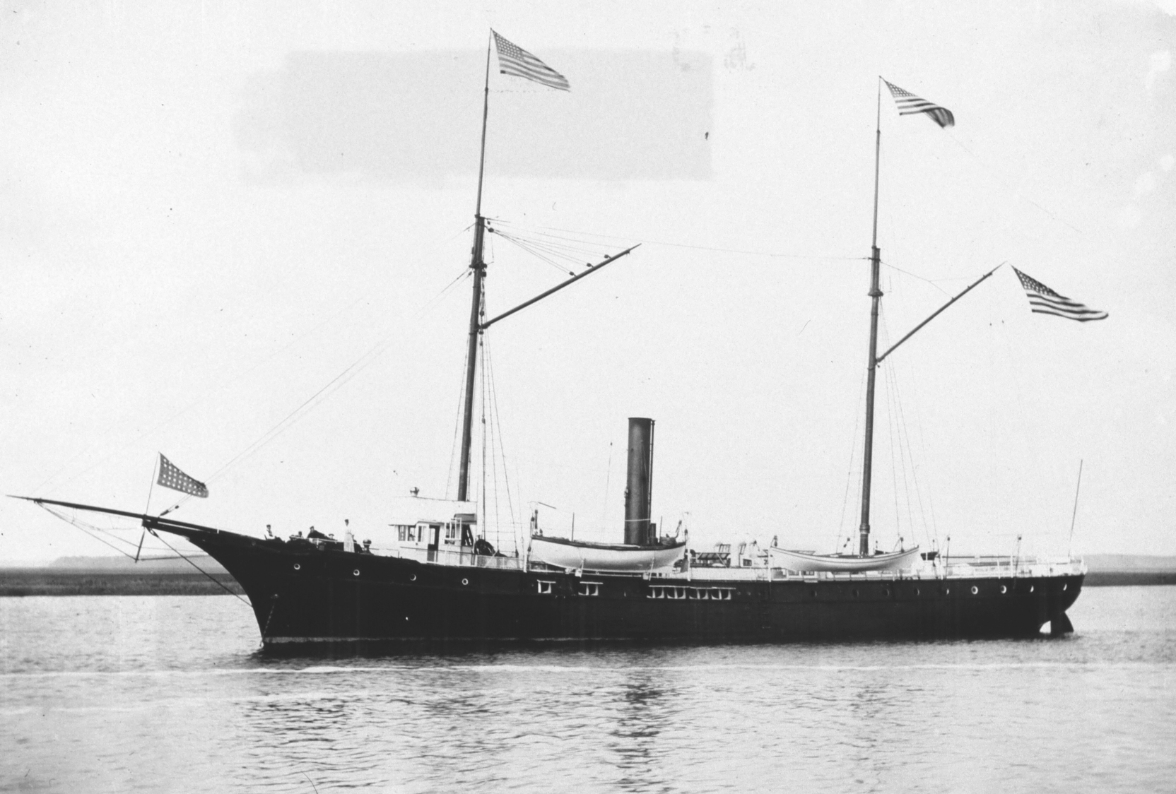 United States Coast and Geodetic Survey Ship Bache, 1889. Photograph edited to monochrome by contributor.